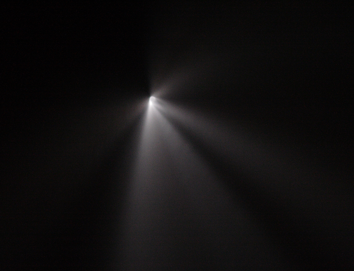 Rocket "Soyouz" flyes over Biysk